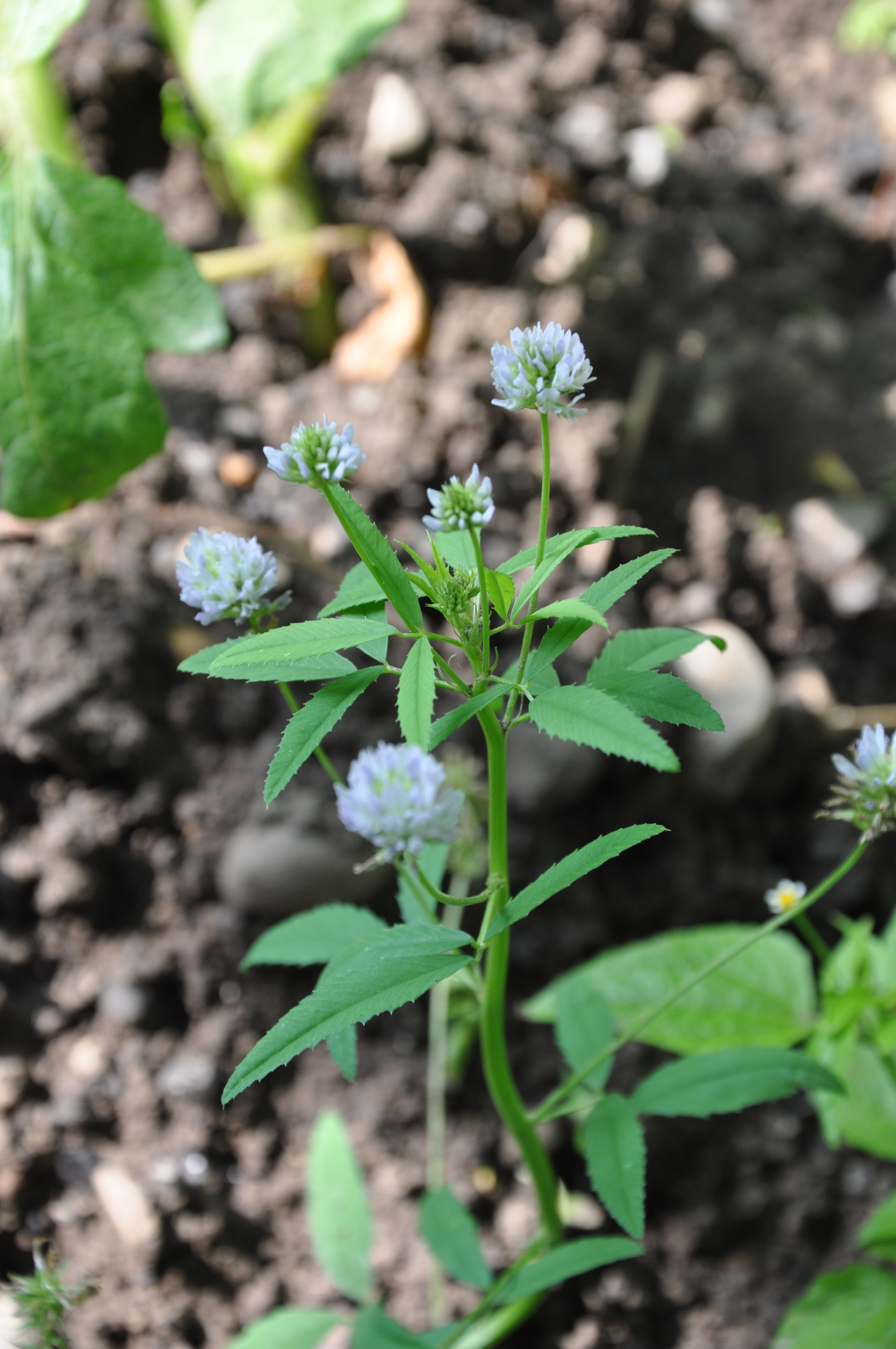 In Saguramo